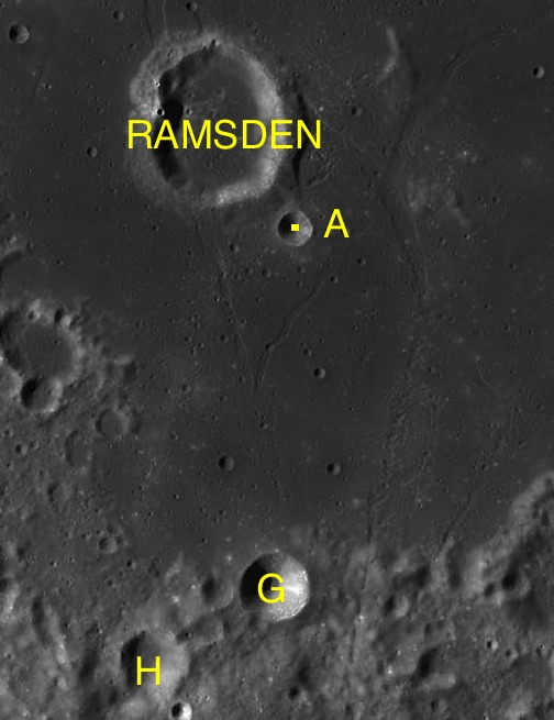 Part of the chart LAC-111 used for the presentation.